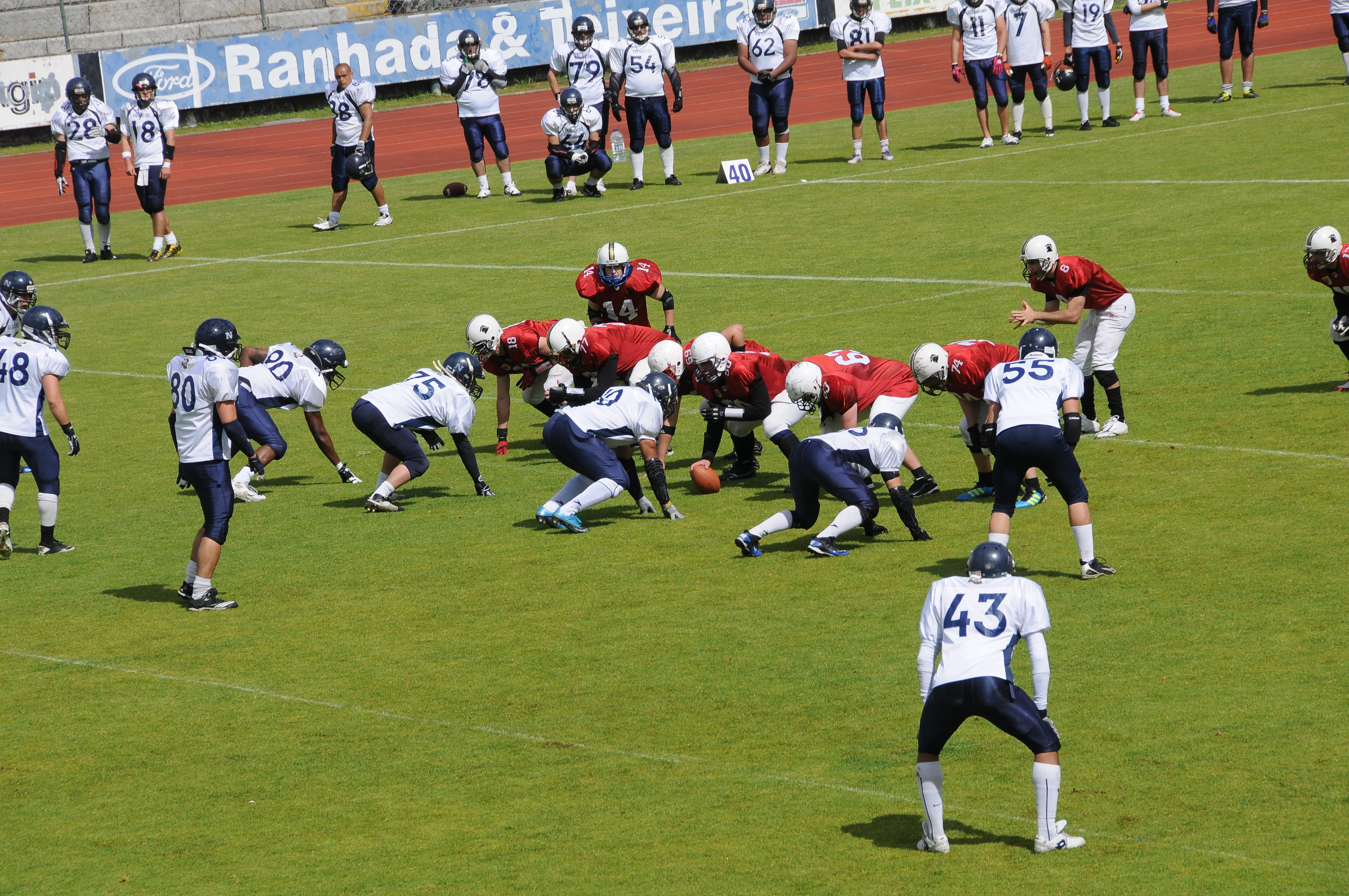 American football in 1.º de Maio stadium in Braga, Portugal.